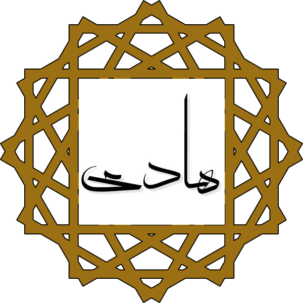 Ali_al-Hadi